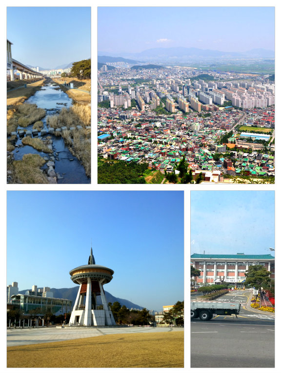 Montage of Gimhae, South Korea.